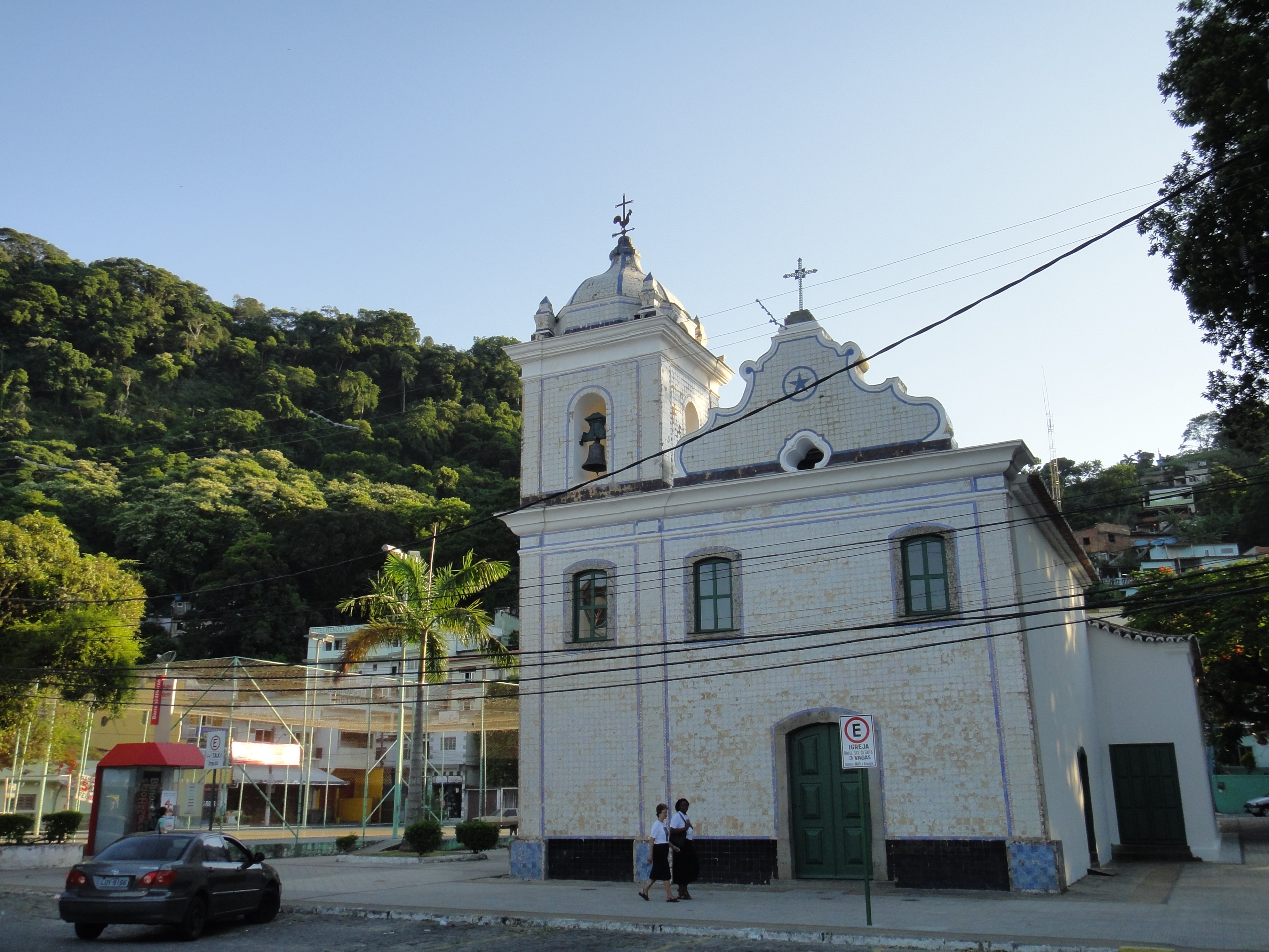 Main Church (Igreja Matriz de Nossa Senhora da Guia) in Mangaratiba, Rio de Janeiro State, Brazil